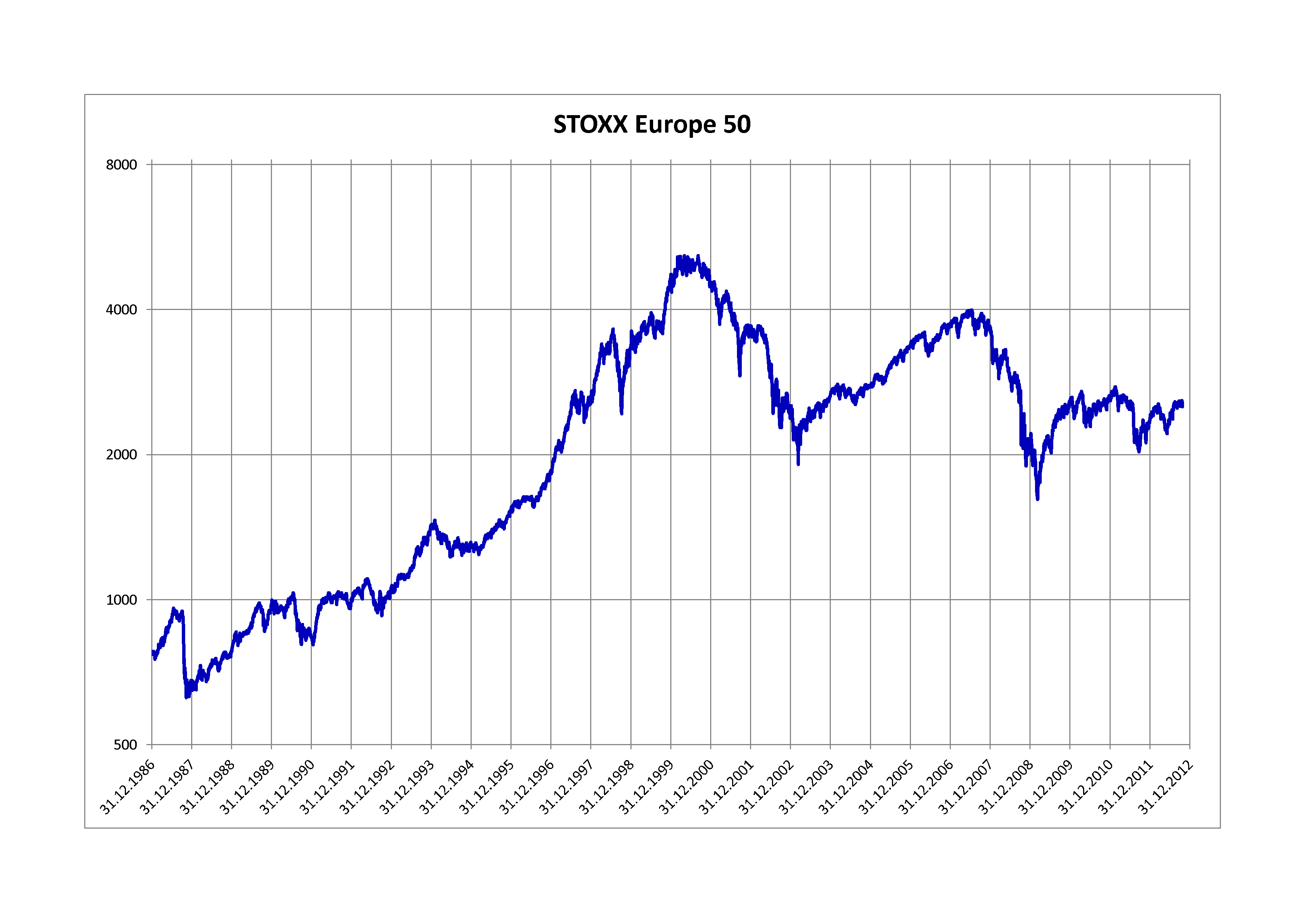 STOXX Europe 50 from December 1986 to October 2012 (daily closings)